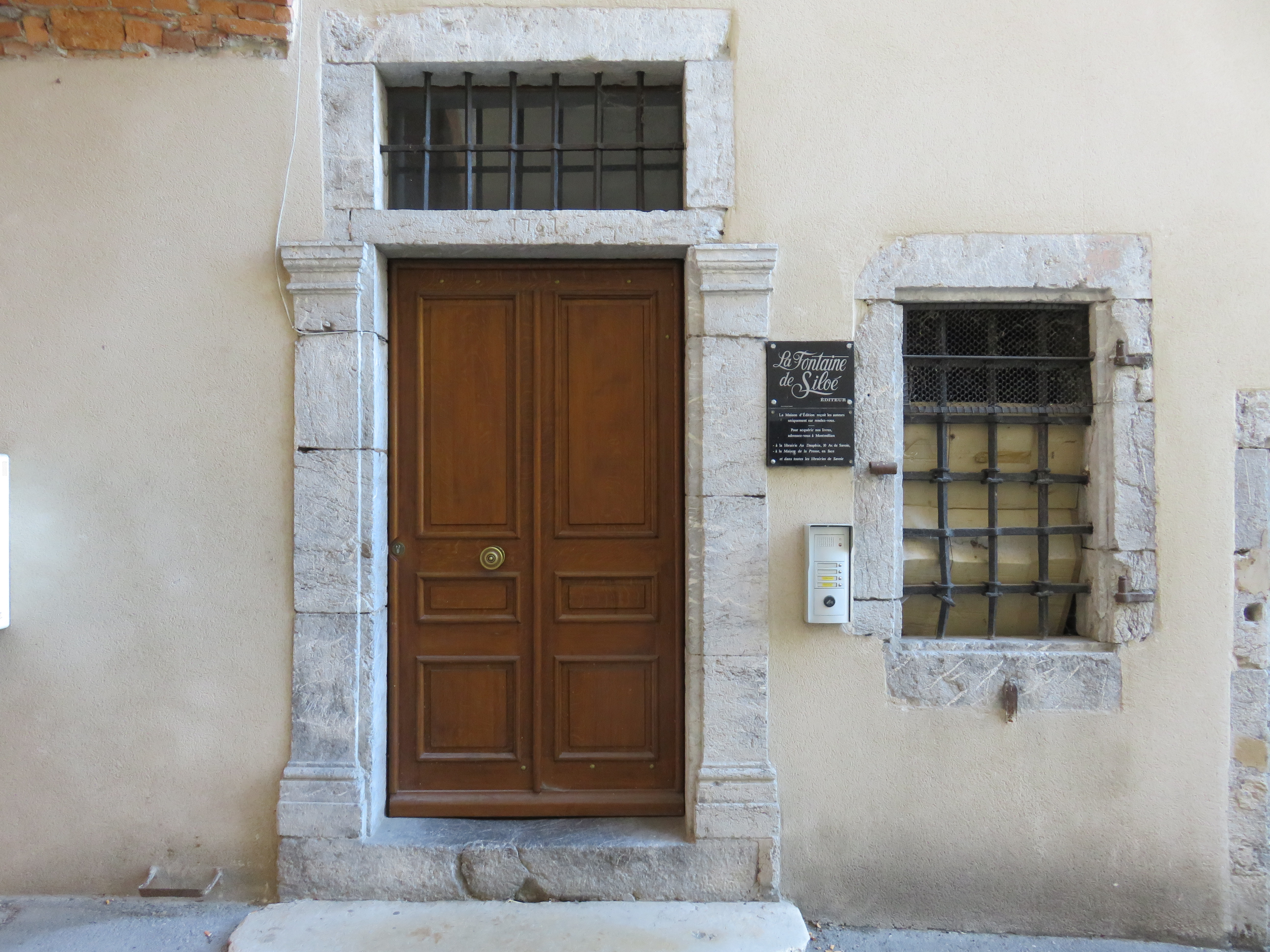 The seat of publisher La Fontaine de Siloé in the Rue Jean-Pierre Veyrat (Montmélian, France) on October 11, 2017.